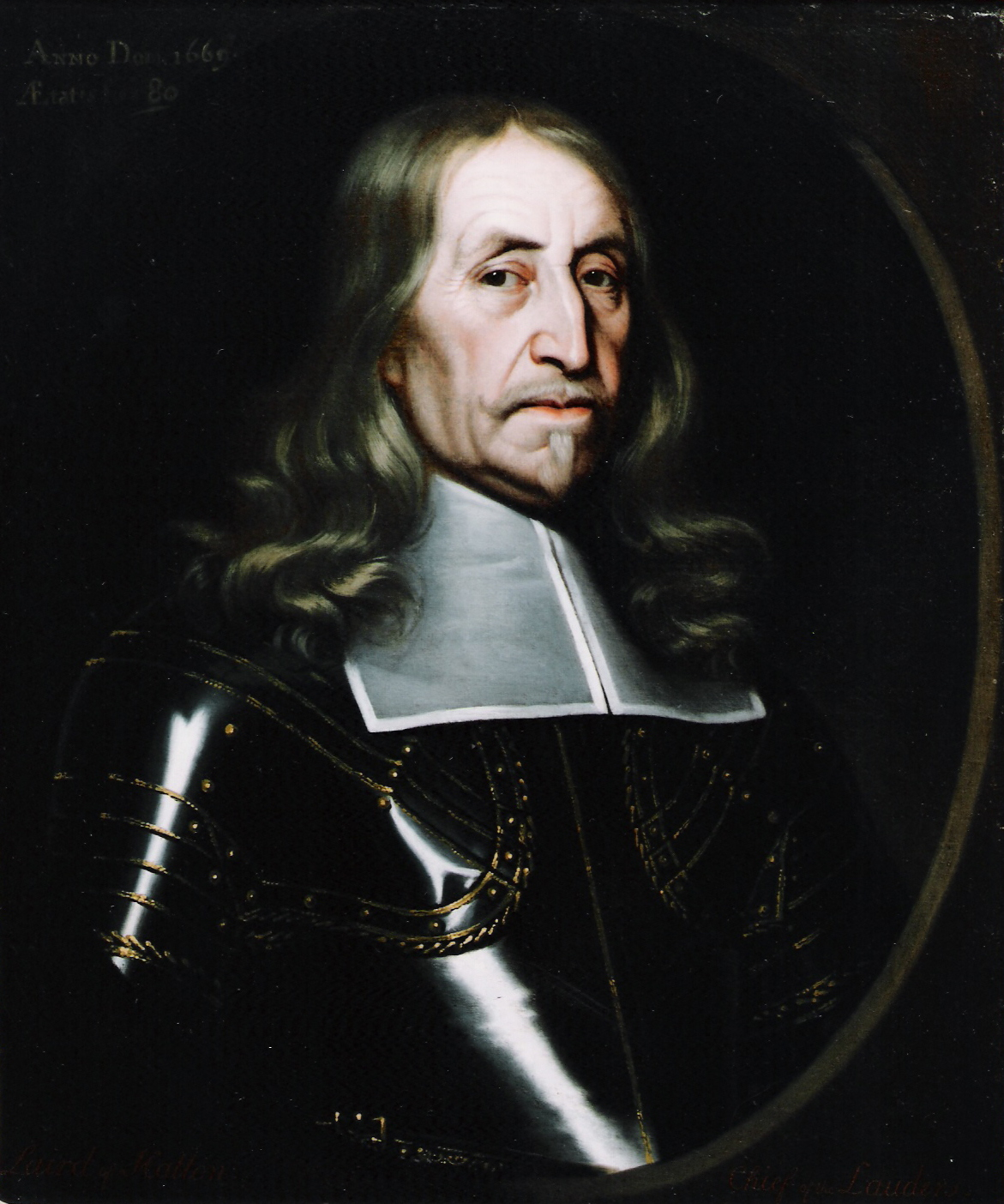 Photo of the portrait of Richard Lauder, Laird of Haltoun, painted in his 80th year.